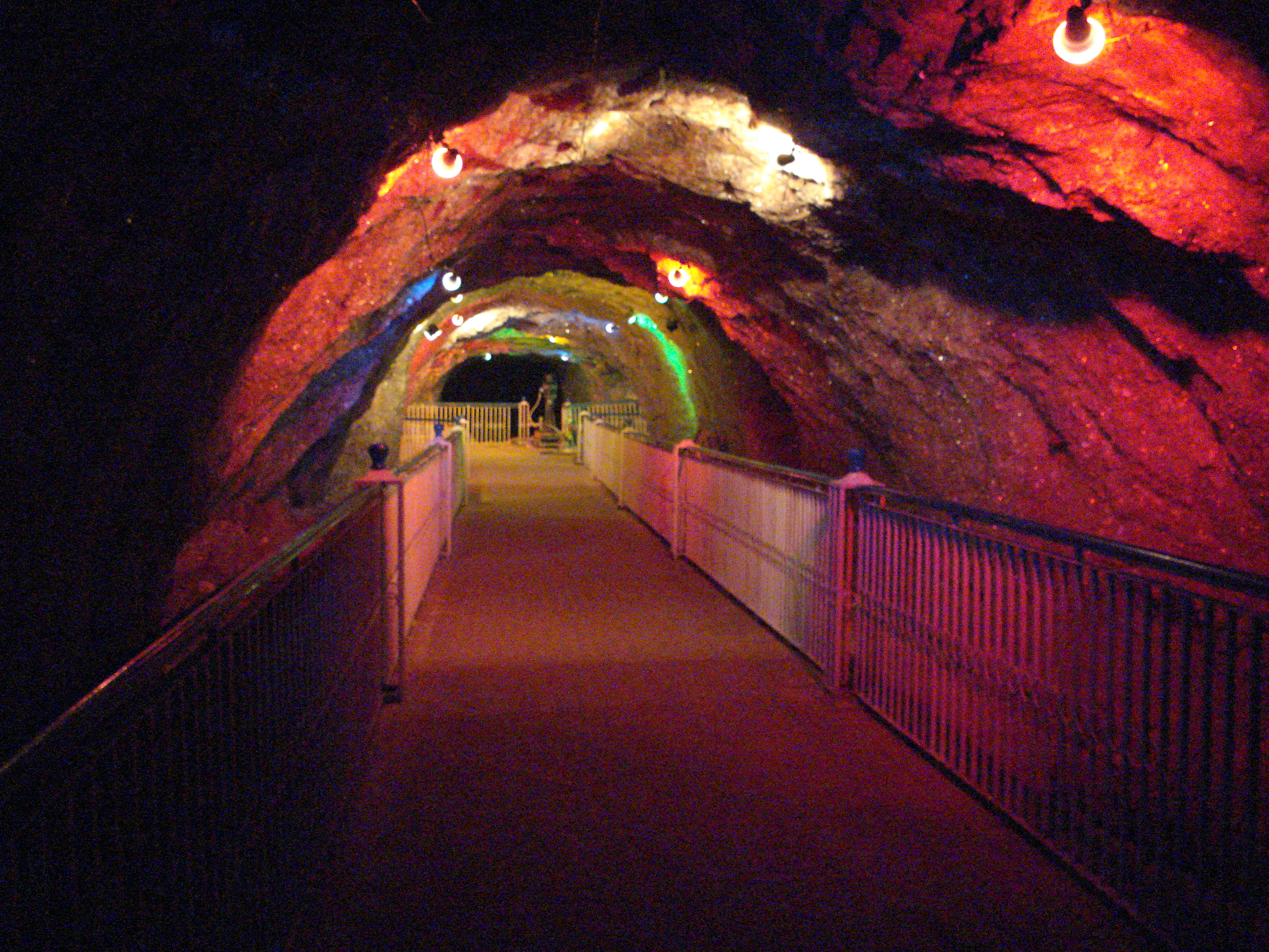 Crystal Valley. One of the tunnels open for tourists in Pakistan's largest salt mine Khewra. The crystals in the walles and rood are lightened by different colors of light.